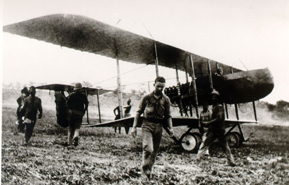 Farman F.40, French surveillance aircraft in the WWI, 1916. Image shows a Portuguese Farman F.40 1916.